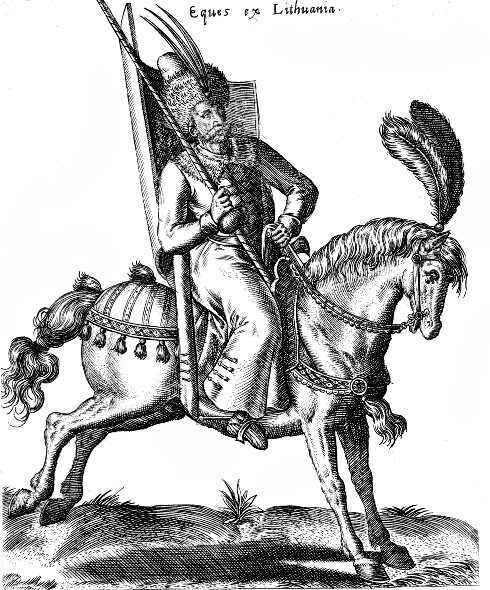 Lithuanian trooper from XVI century